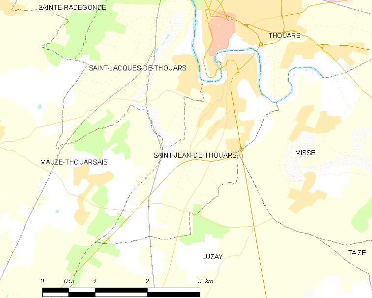 Map of French municipality Saint-Jean-de-Thouars